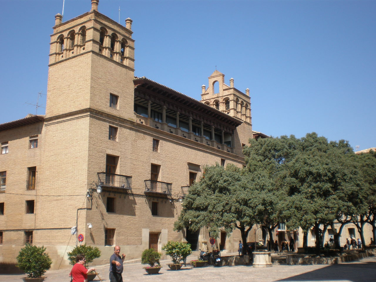 Huesca's town hall